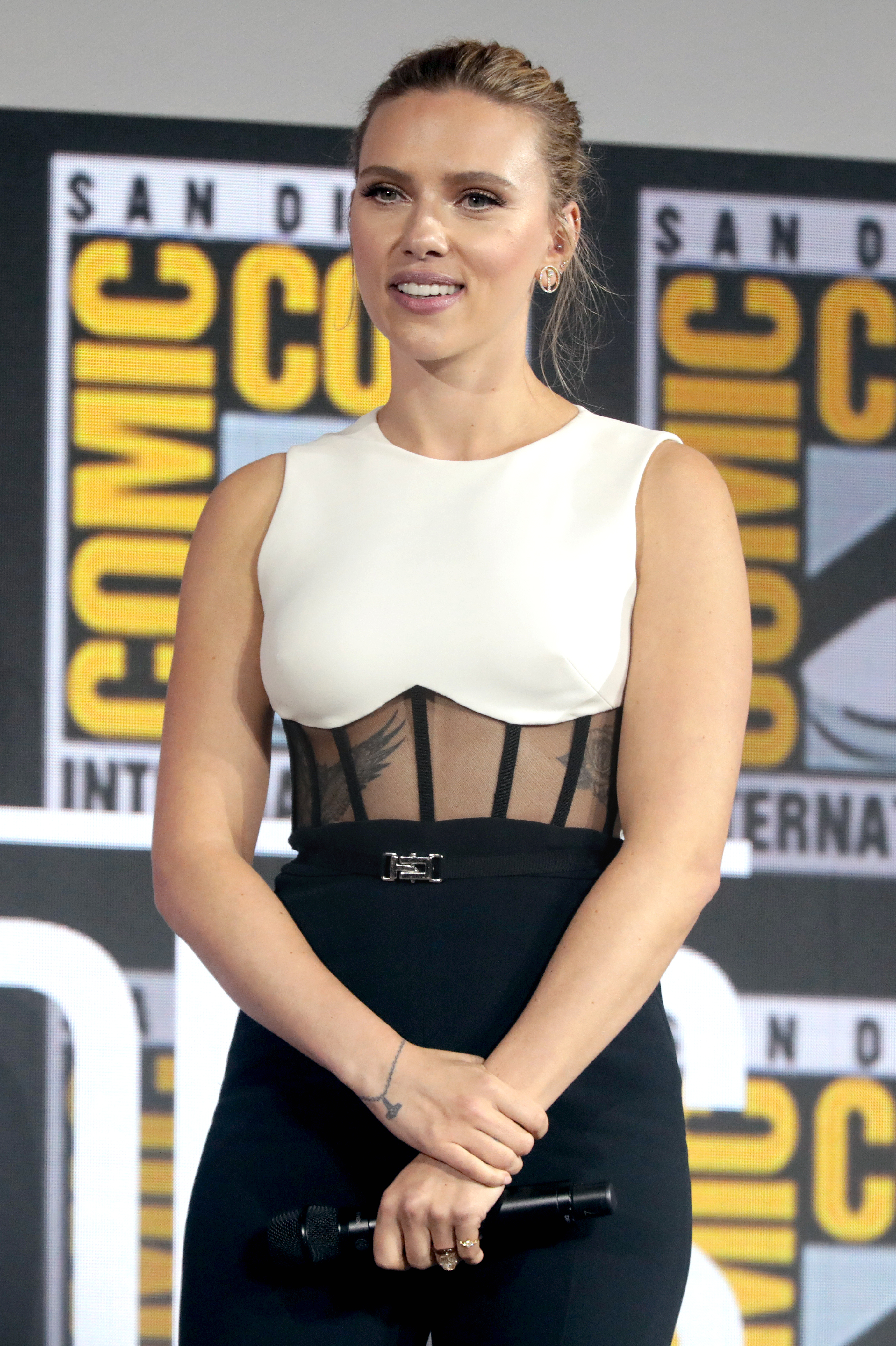 Scarlett Johansson speaking at the 2019 San Diego Comic Con International, for "Black Widow", at the San Diego Convention Center in San Diego, California.